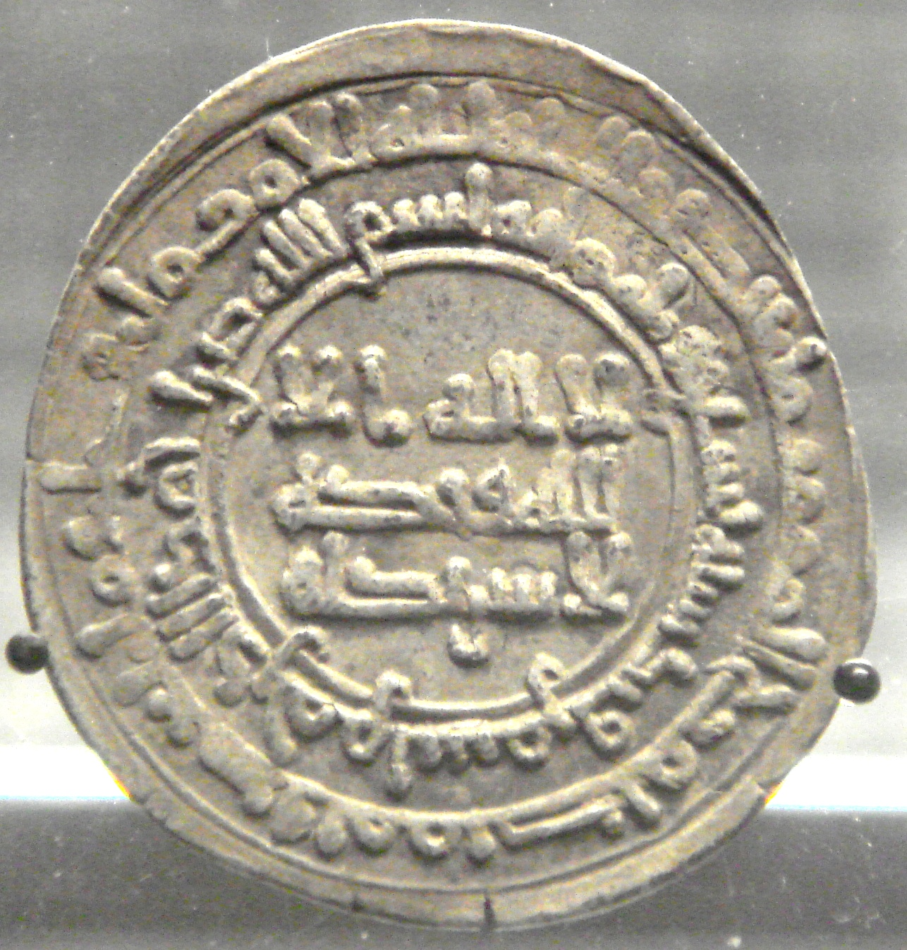 Nasr_II_Samarqand coin_921_922